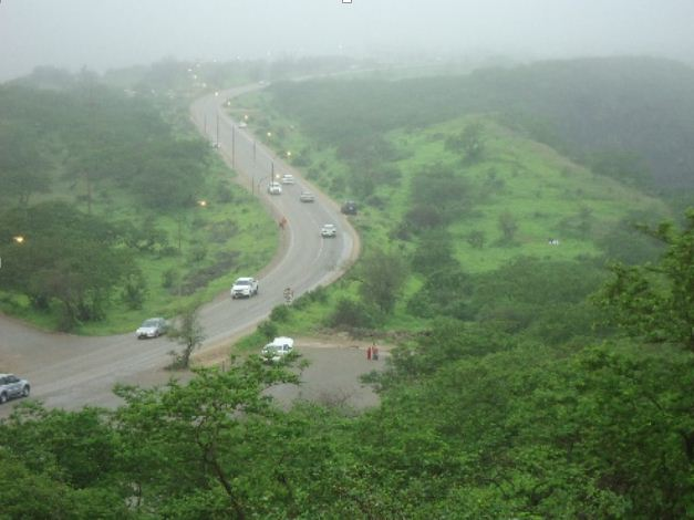 Salalah is green during Khareef season (June to September) every year